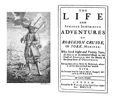 works of daniel defoe